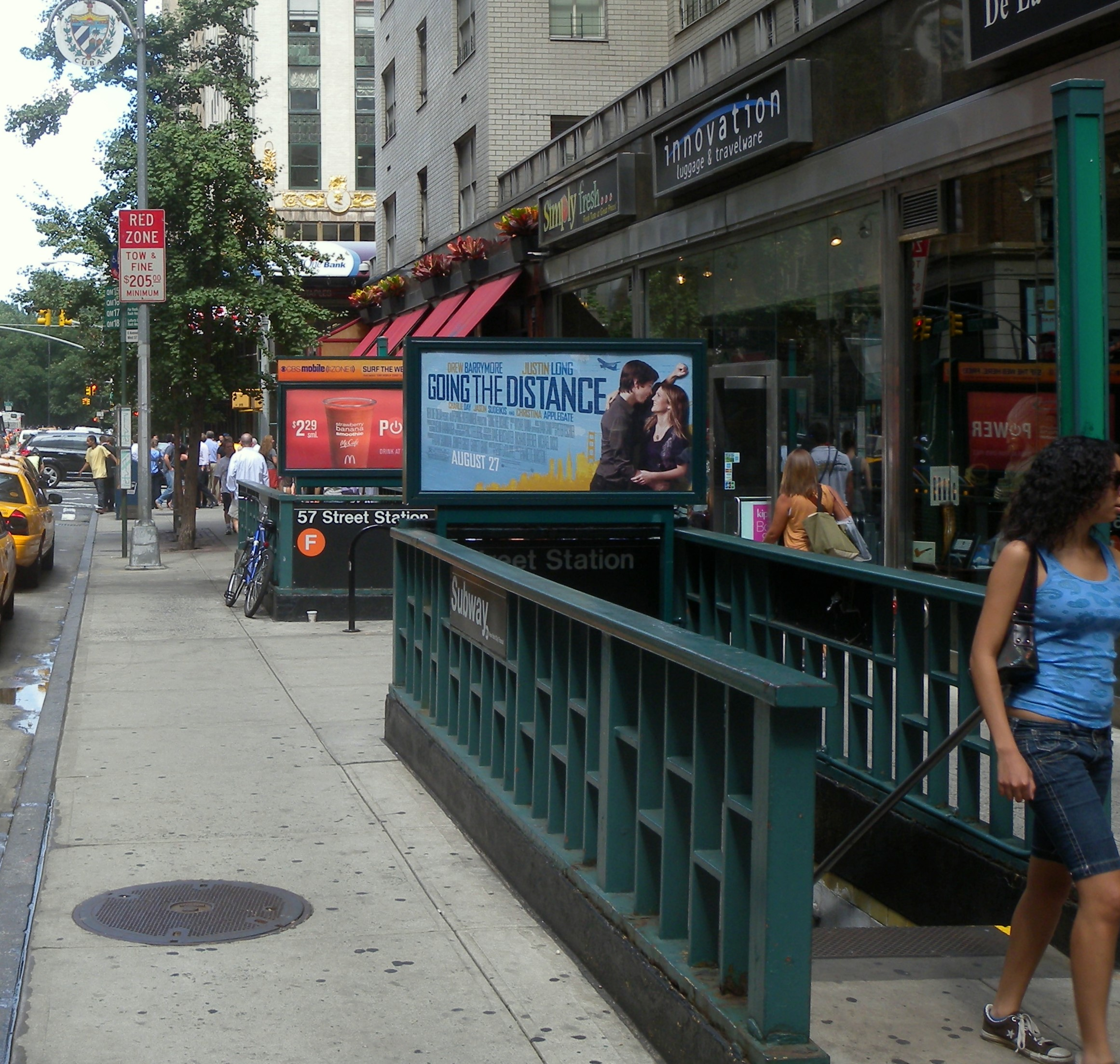 Looking north at eastern stairs of 57th St IND on a cloudy day.